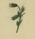 Stainton’s Natural History of the Tineina (1855–1873): Eulamprotes wilkella a sprig of Cerastium holosteoides eaten by larva